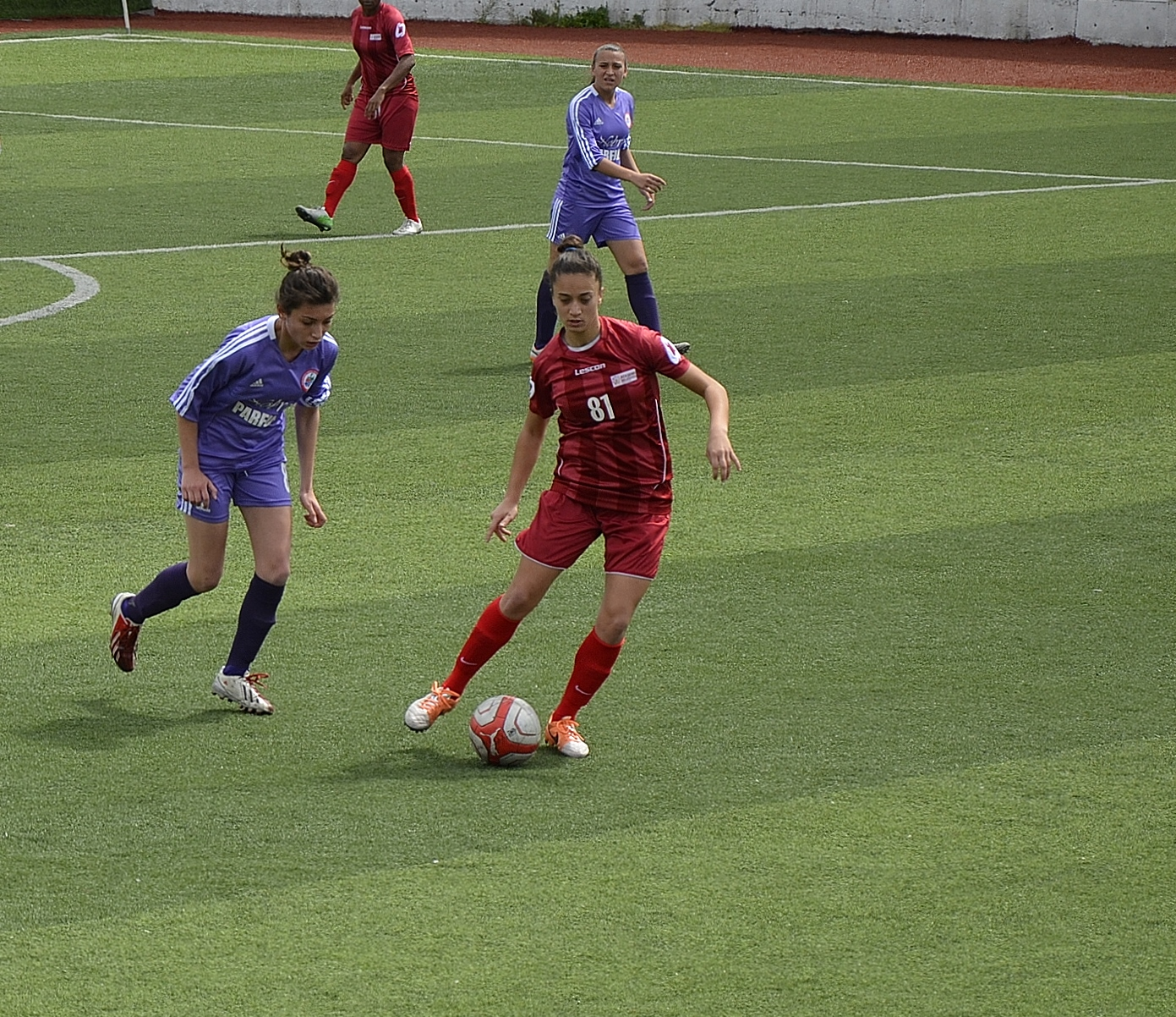 Emine Ecem Esen for Ataşehir Belediyespor in the 2013-14 season